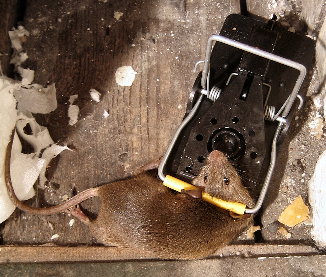 A mouse caught in a mousetrap. Photo by ed g2s • talk.